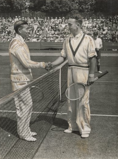 A digital image of the portrait is available from the National Library of Australia (NLA) website. The NLA image contains spurious indexing information along the bottom. This image is a cropped version that eliminates these.